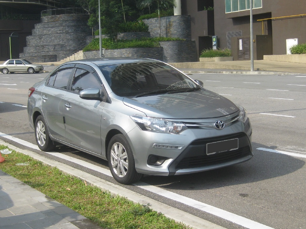 Toyota Vios 1.5 J (NCP150), photographed in Medini, Johor, Malaysia.